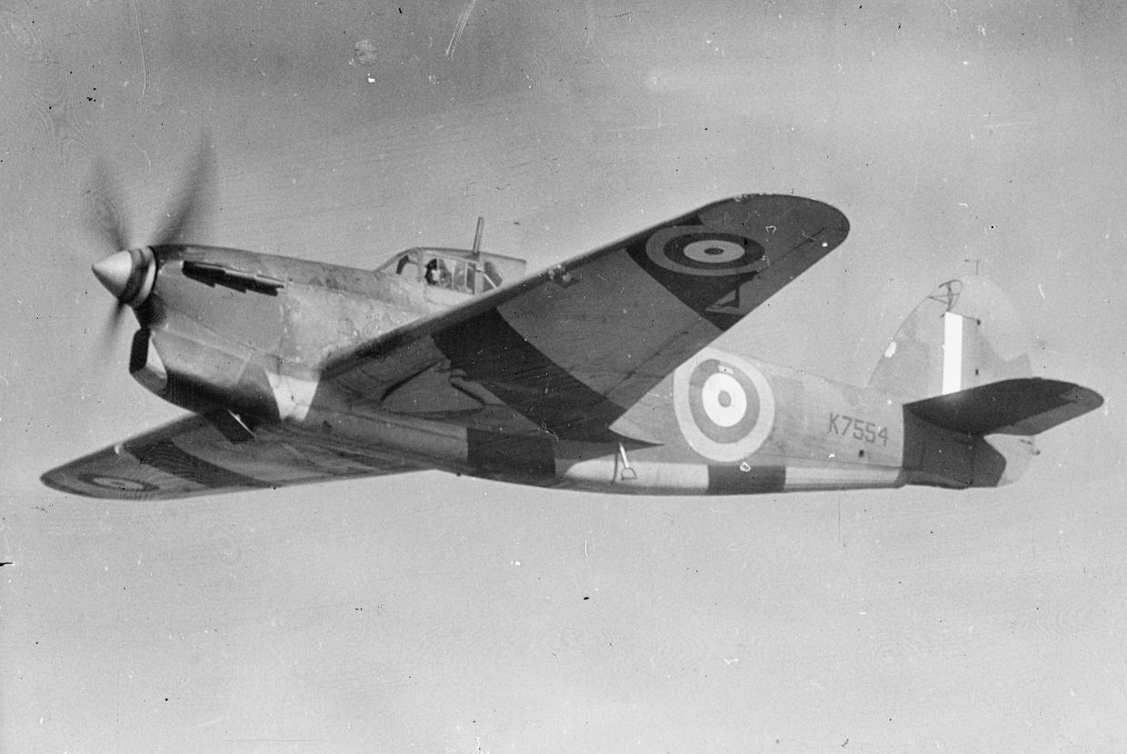 The second prototype Hawker Henley (RAF serial K7554) after conversion as the first TT Mark III target-tug, in flight. This aircraft served with No. 1 Anti-Aircraft Cooperation Unit.